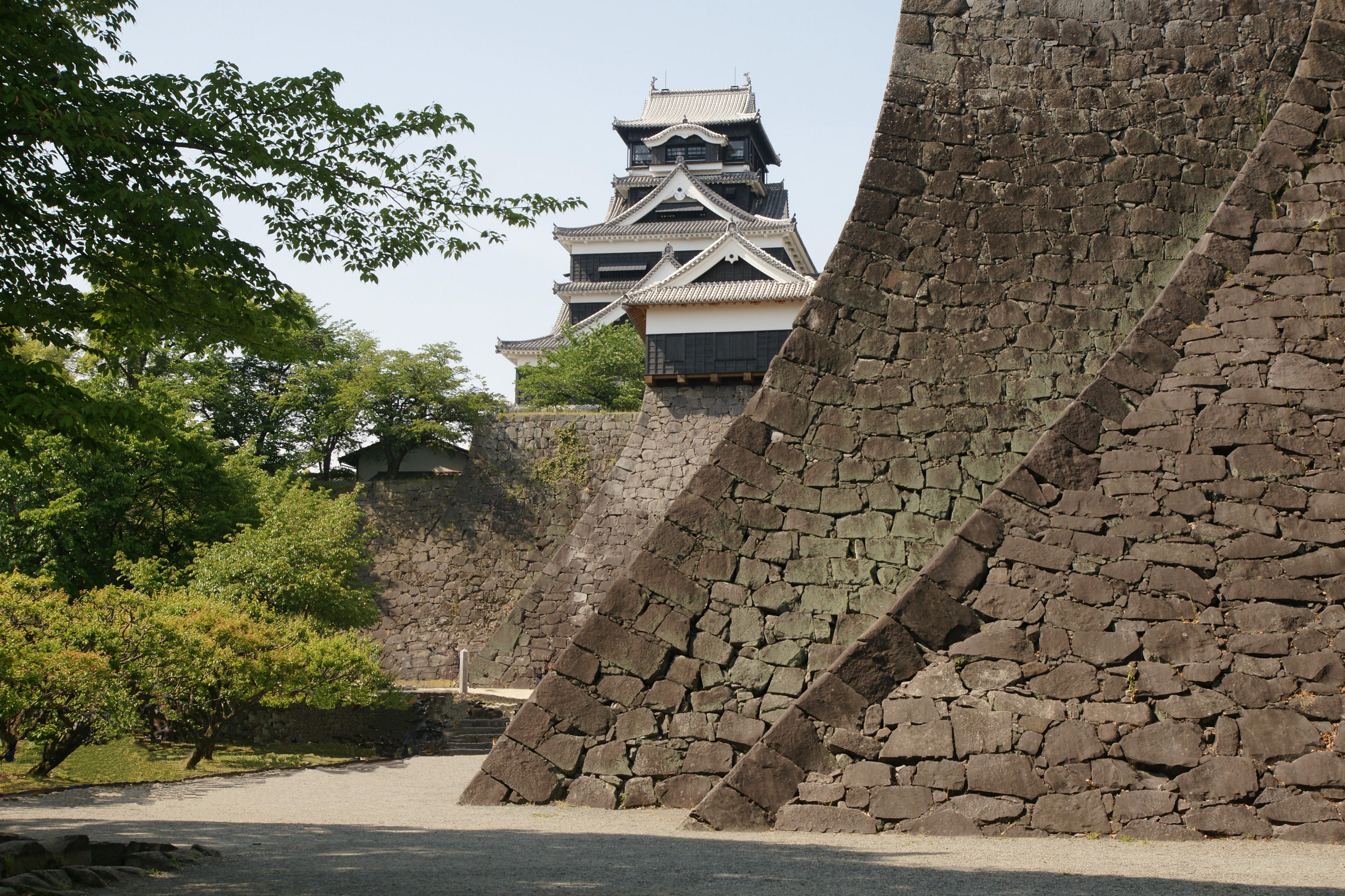 The photo of drystone walls of Kumamoto castle with the people removed using the GIMP.